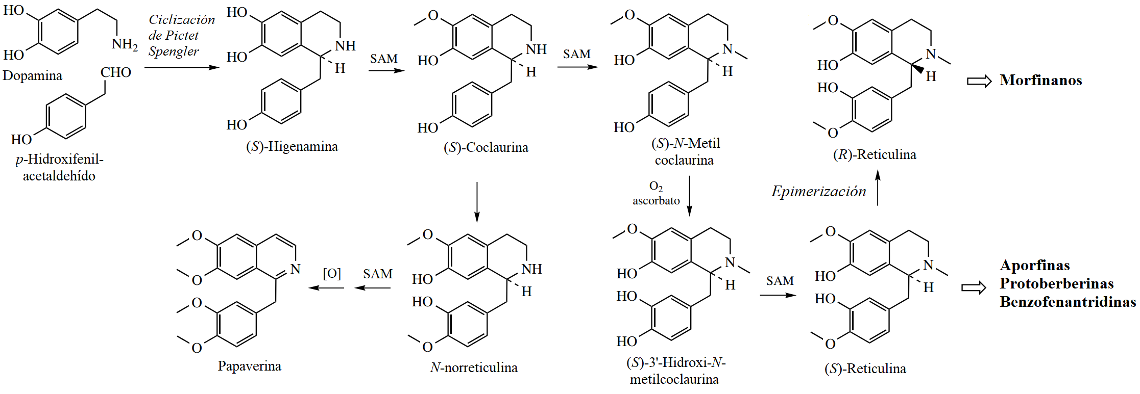 Benzyltetrahydroisoquinolines biosynthesis in spanish